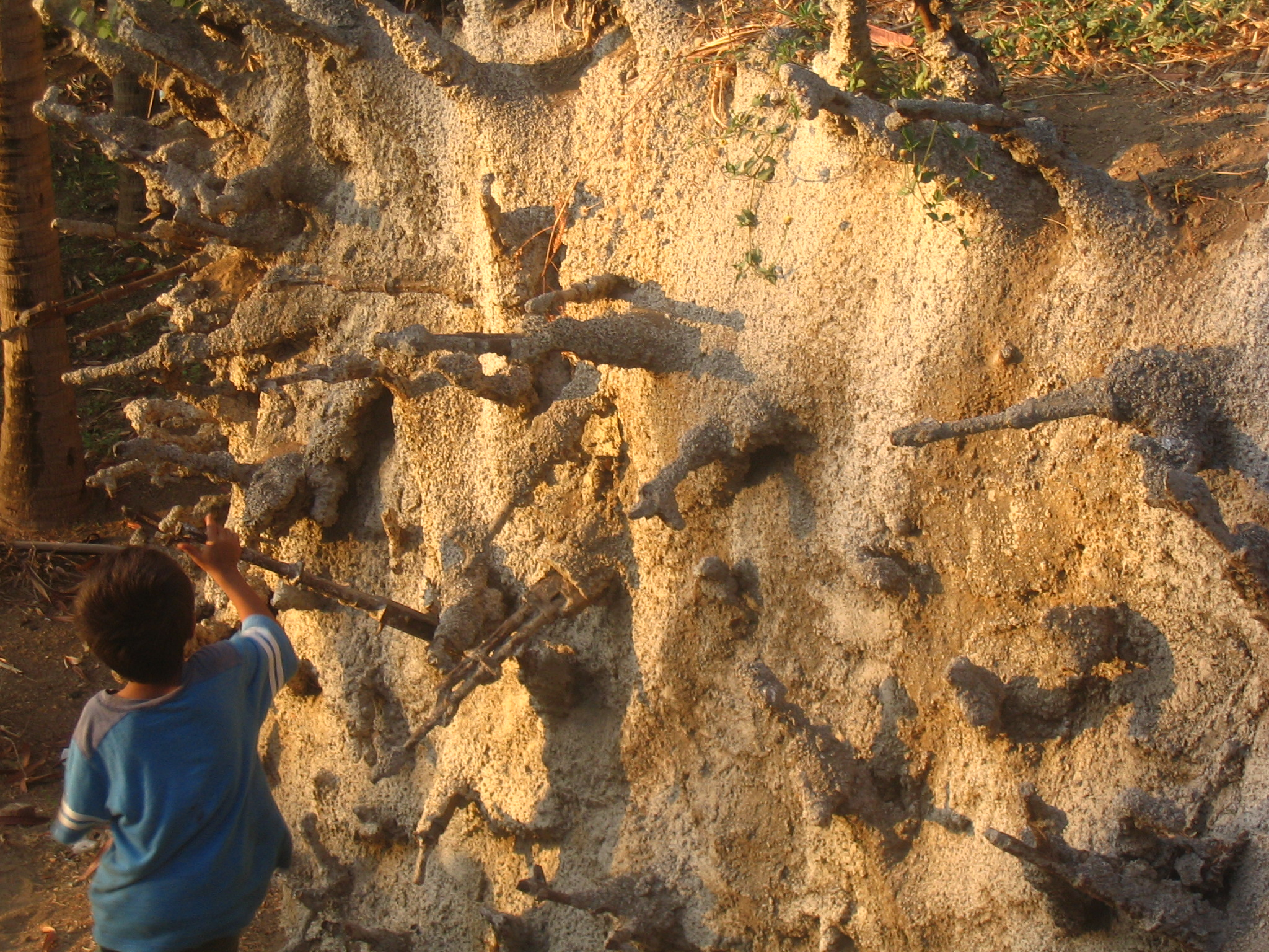 Ak-47s with boy located in Violeta Chamorro's Parque de Paz in Managua, Nicaragua